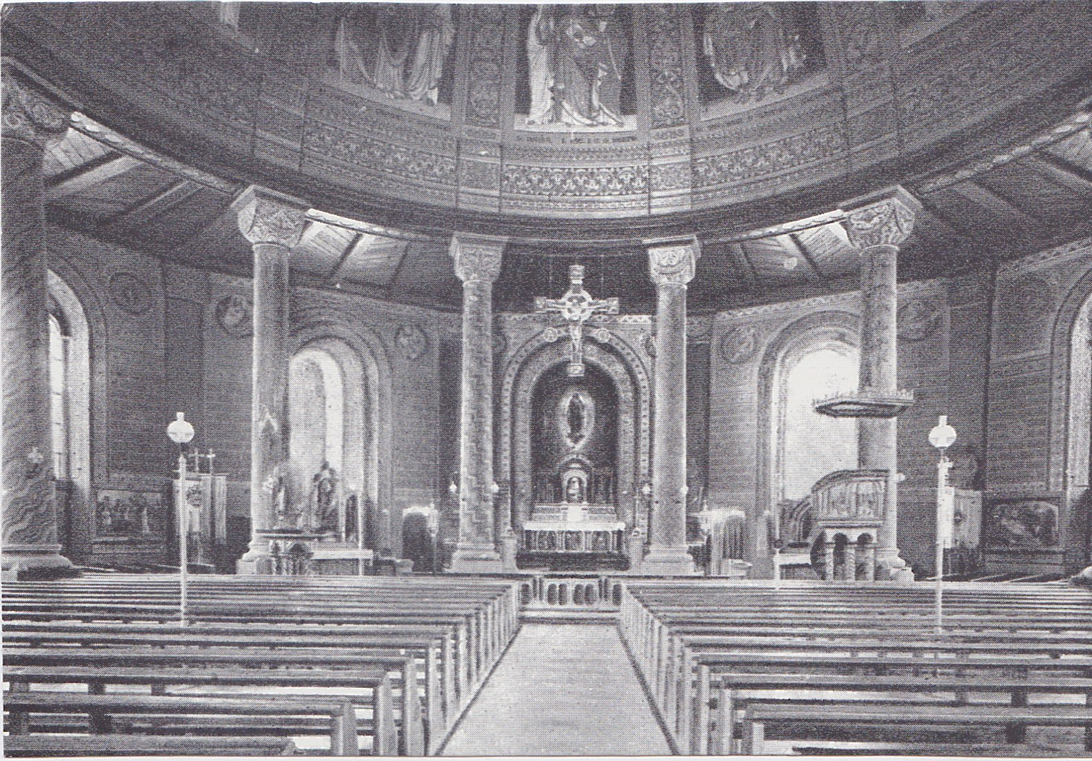 photo of an old photo bevor 1898